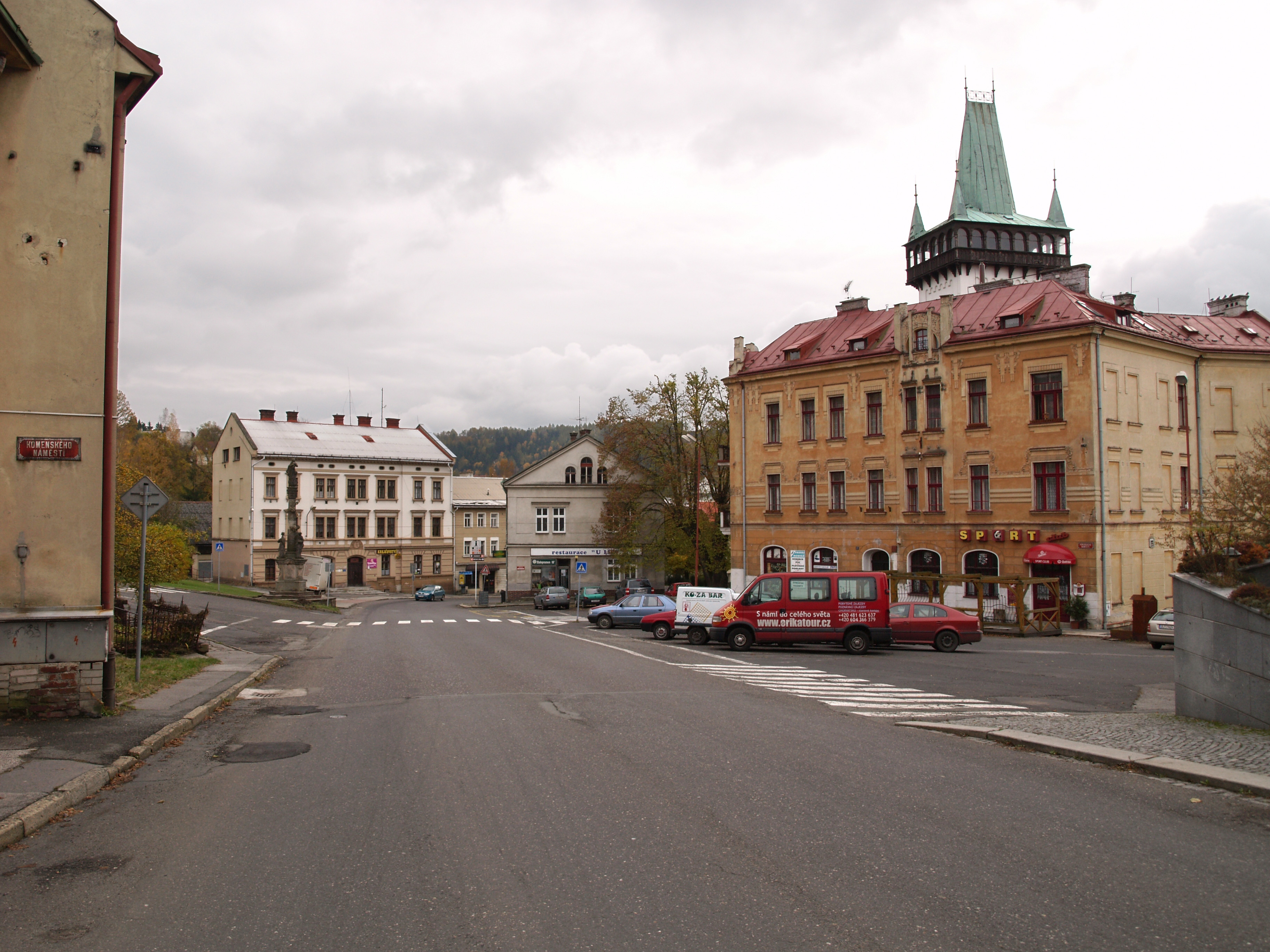 Czech town Semily—Komenský’s square